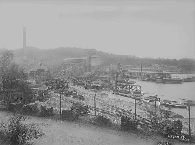 Dalen Portland Cement in Brevik, Norway